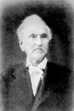 Photo of David Whitmer, an early leader in the Latter Day Saint movement, later in life, ca 1880s.